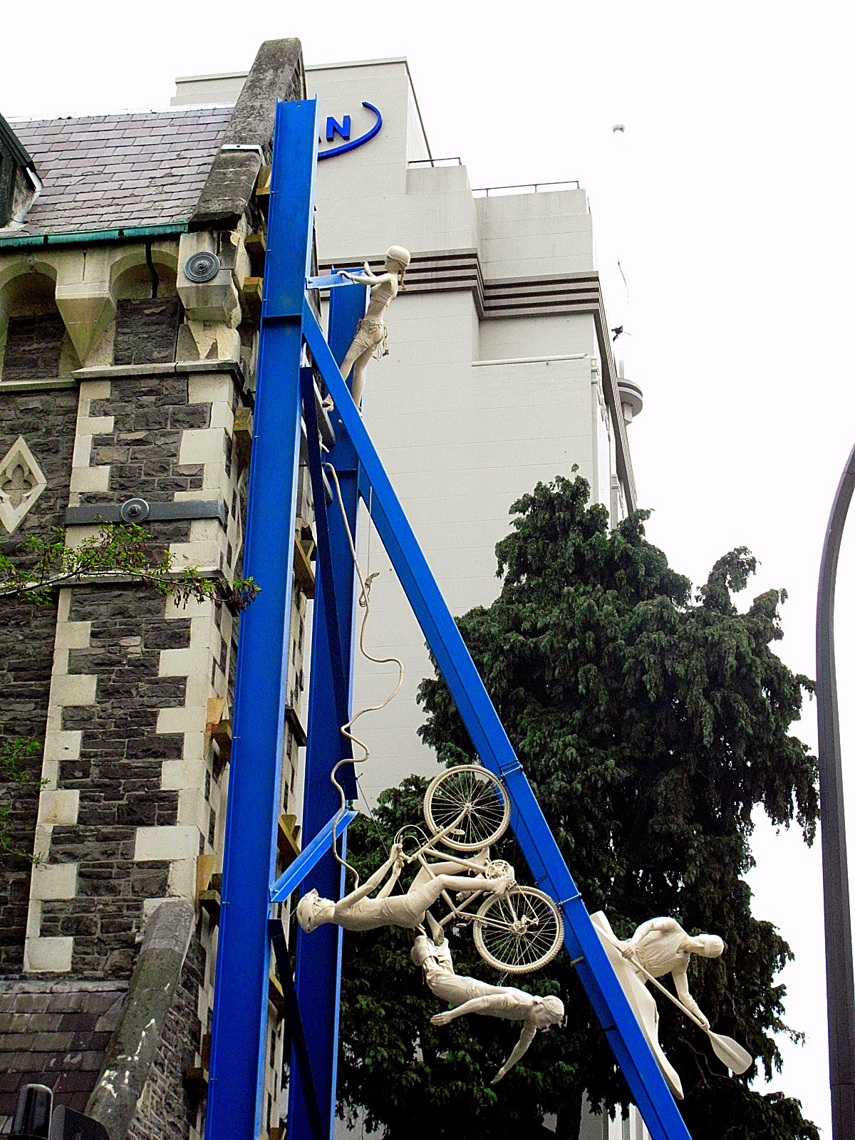 Previously The Trinity church, Octagon Live restaurant on Worcester Street was damaged in the magnitude 7.1 earthquake that struck Christchurch on Saturday 4 September 2010. Steel frames prop the building while it is being repaired.